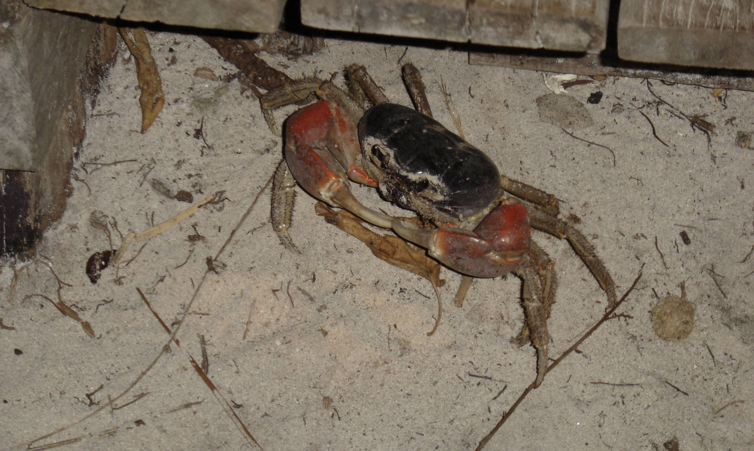 hairy-legged mountain land crab (Cardisoma carnifex), taken on Ko Miang, Similan Islands, Thailand